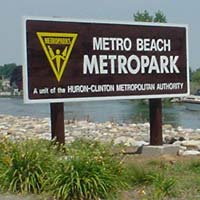 I took this picture of the sign along Black Creek in Harrison Township, Michigan. I then cropped it down to a reasonable size to post it on Wikipedia.